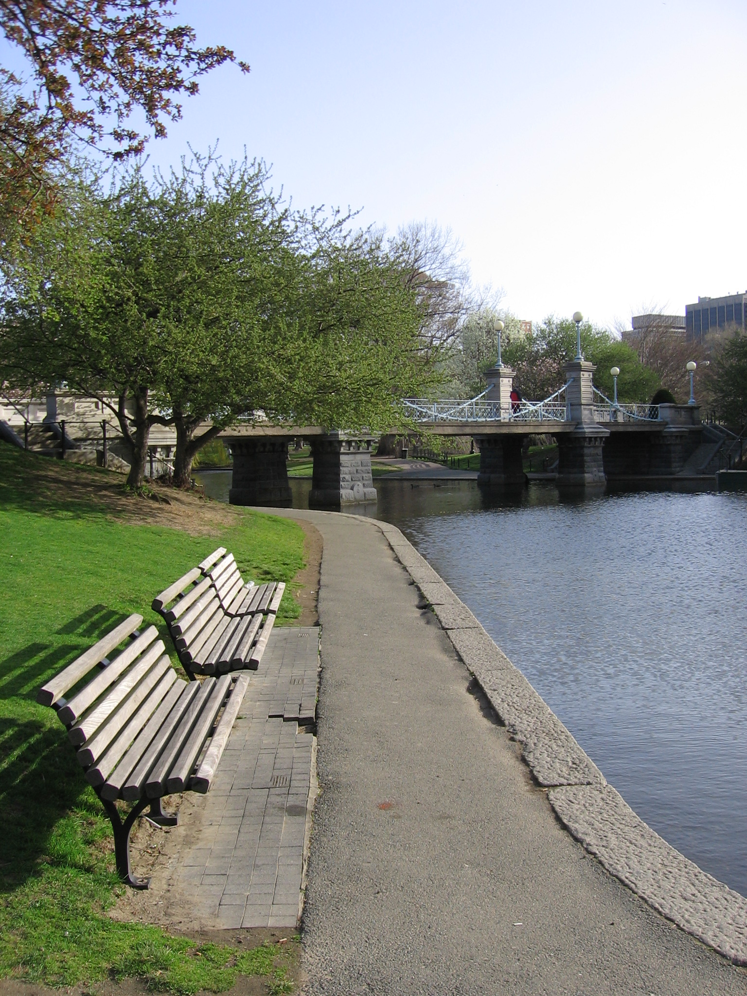 My photo from spring 2006.